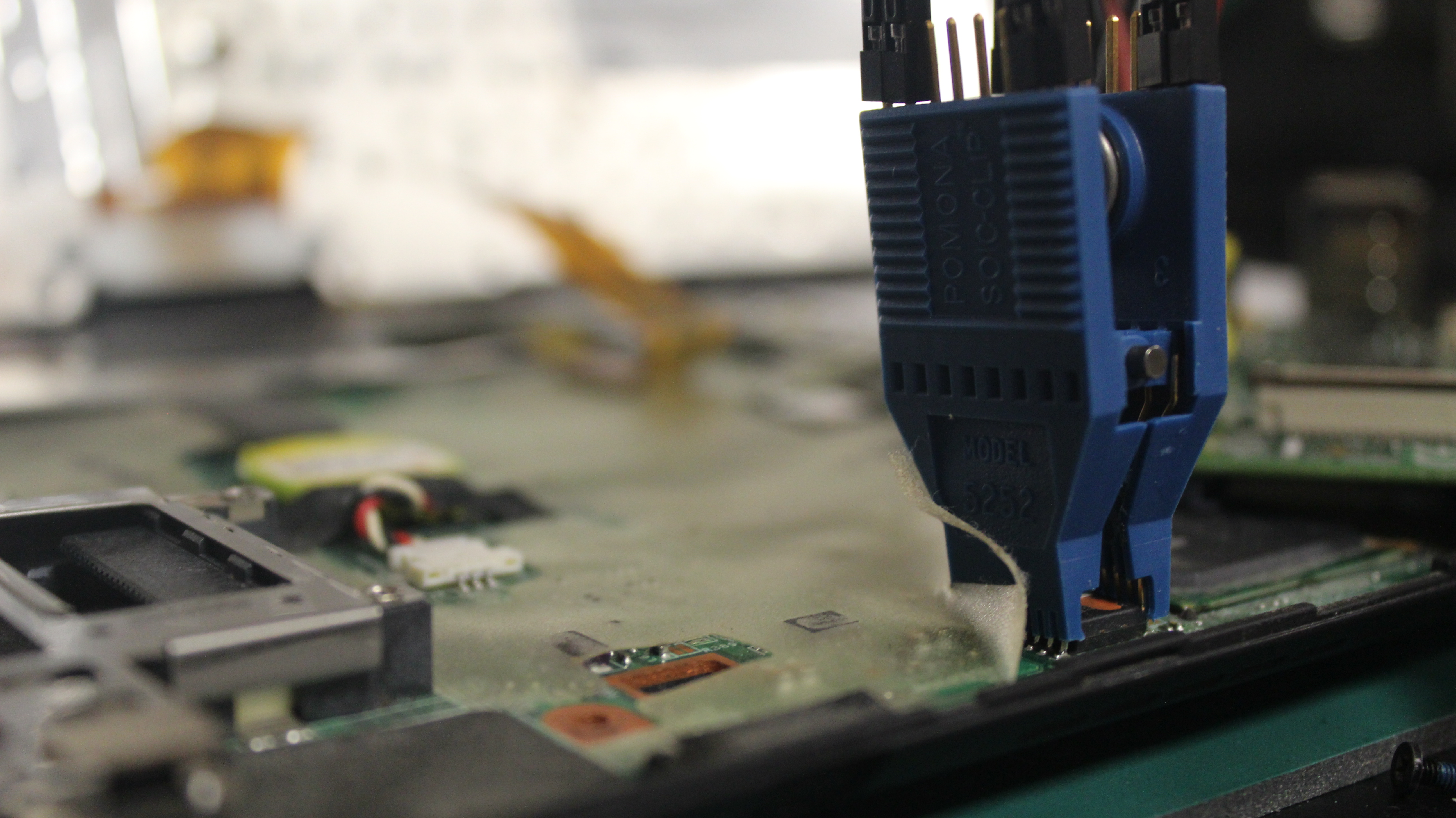 Hardware hacking, while installing Libreboot to ThinkPad X200 in Hackerspace Istanbul.